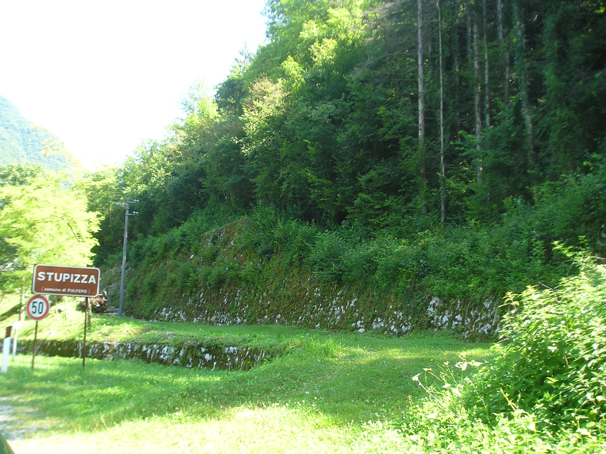 A cutting of the former Cividale - Kobarid narrow gauge railway (1916 - 1932) in Stupizza, Italy